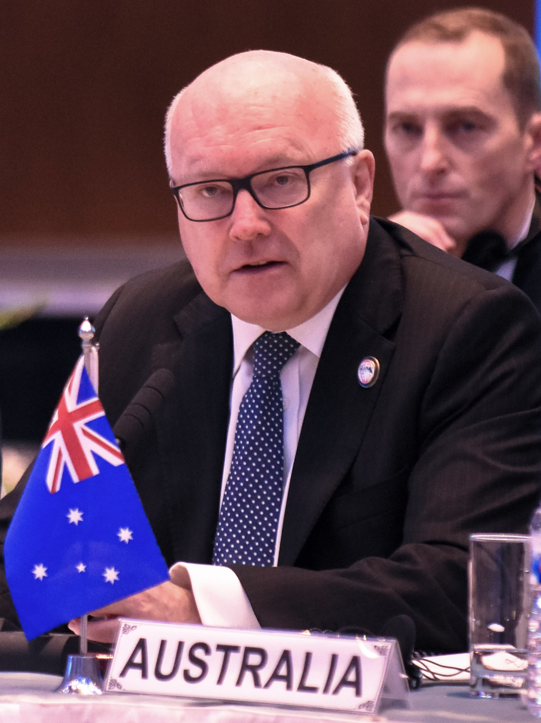 George Brandis at the 2017 Sub-Regional Meeting on Foreign Terrorist Fighters and Cross Border Terrorism in Indonesia.